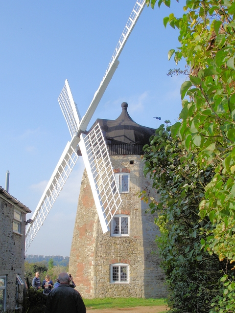 Restored 18th-century tower mill in Mill Lane, Wheatley, Oxfordshire